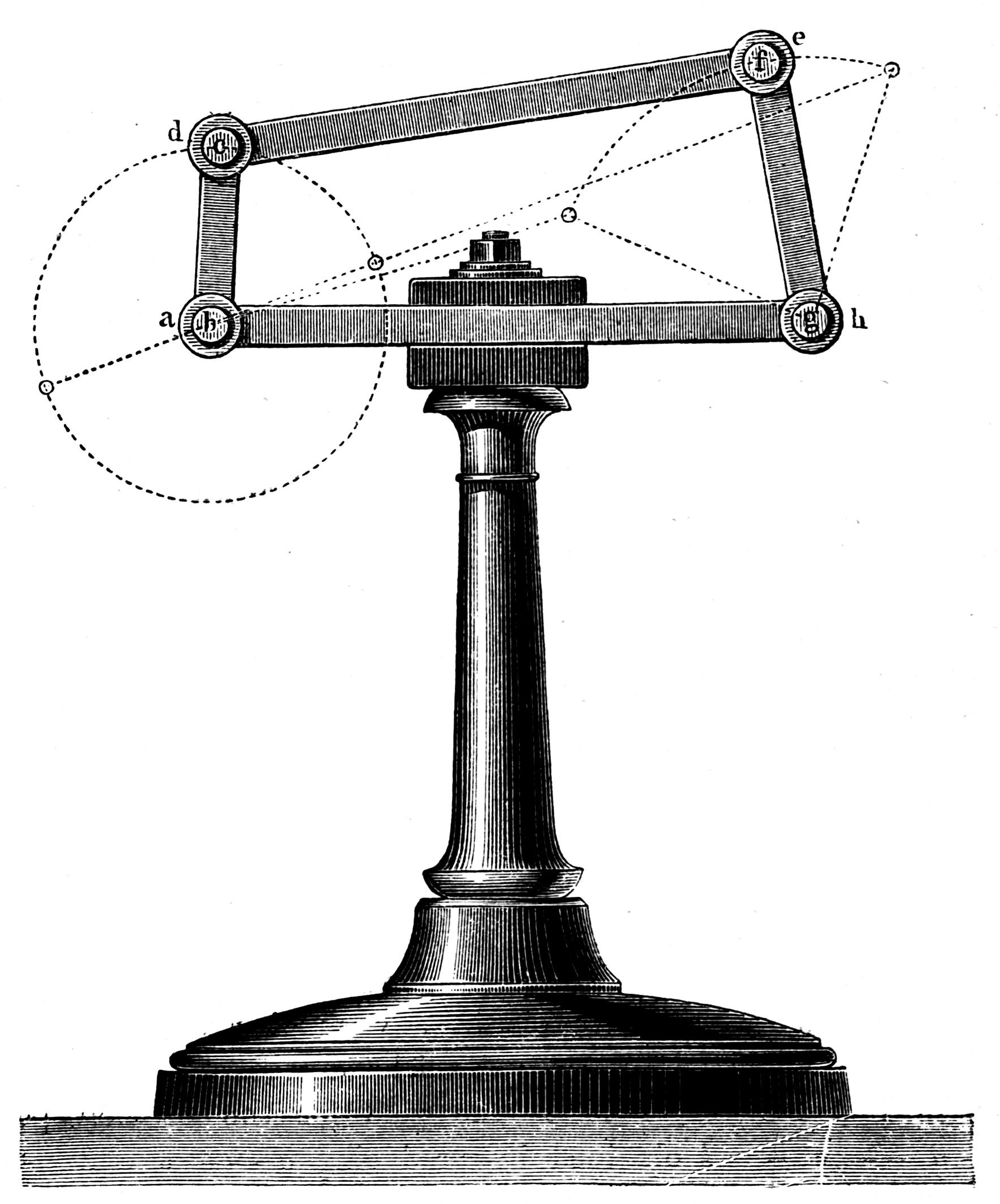 Figure 21 from The Kinematics of Machinery.